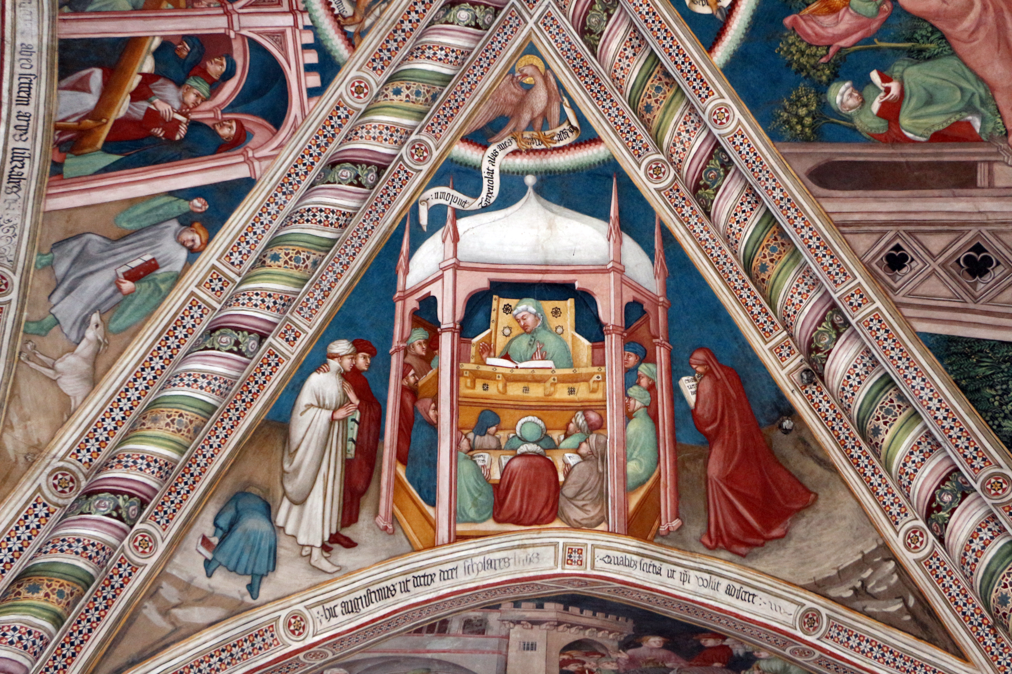 Stories of Saint Augustine by Ottaviano Nelli